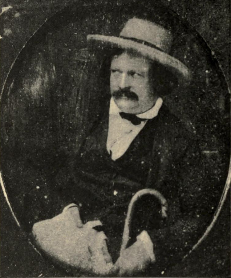 Ned Buntline